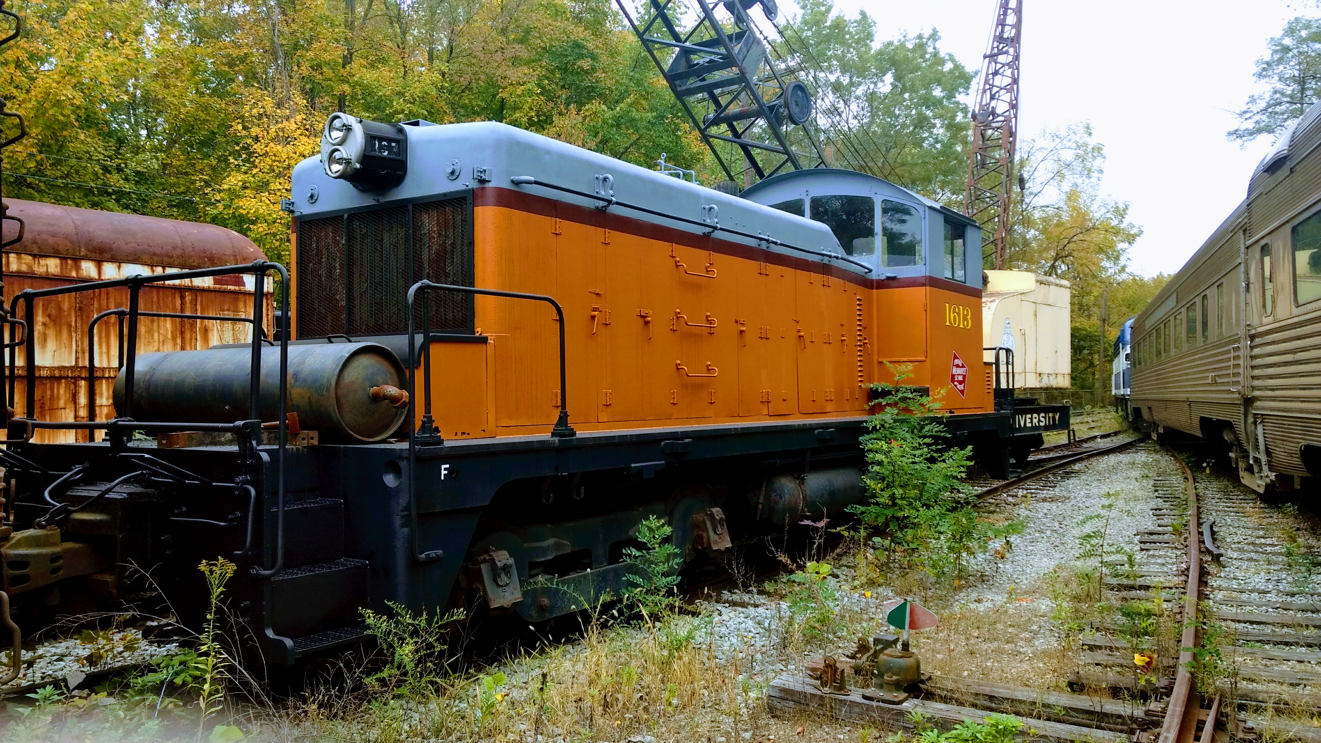 This is Milwaukee Road SW-1 #1613 after Restoration by Thomas Harleman